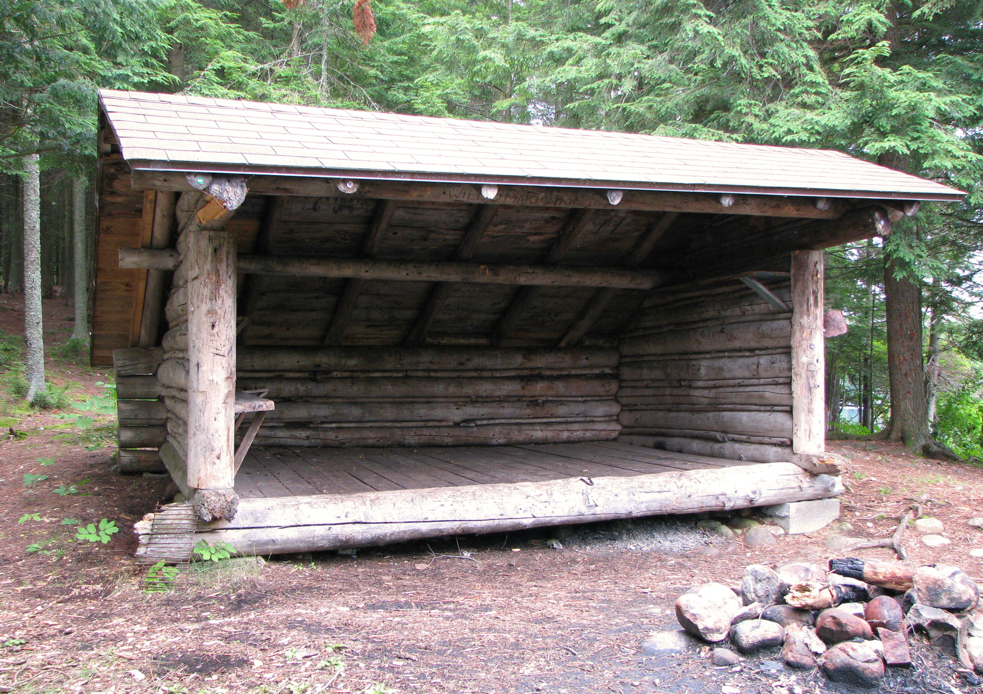 A lean-to at Black Pond, Keese Mills, NY